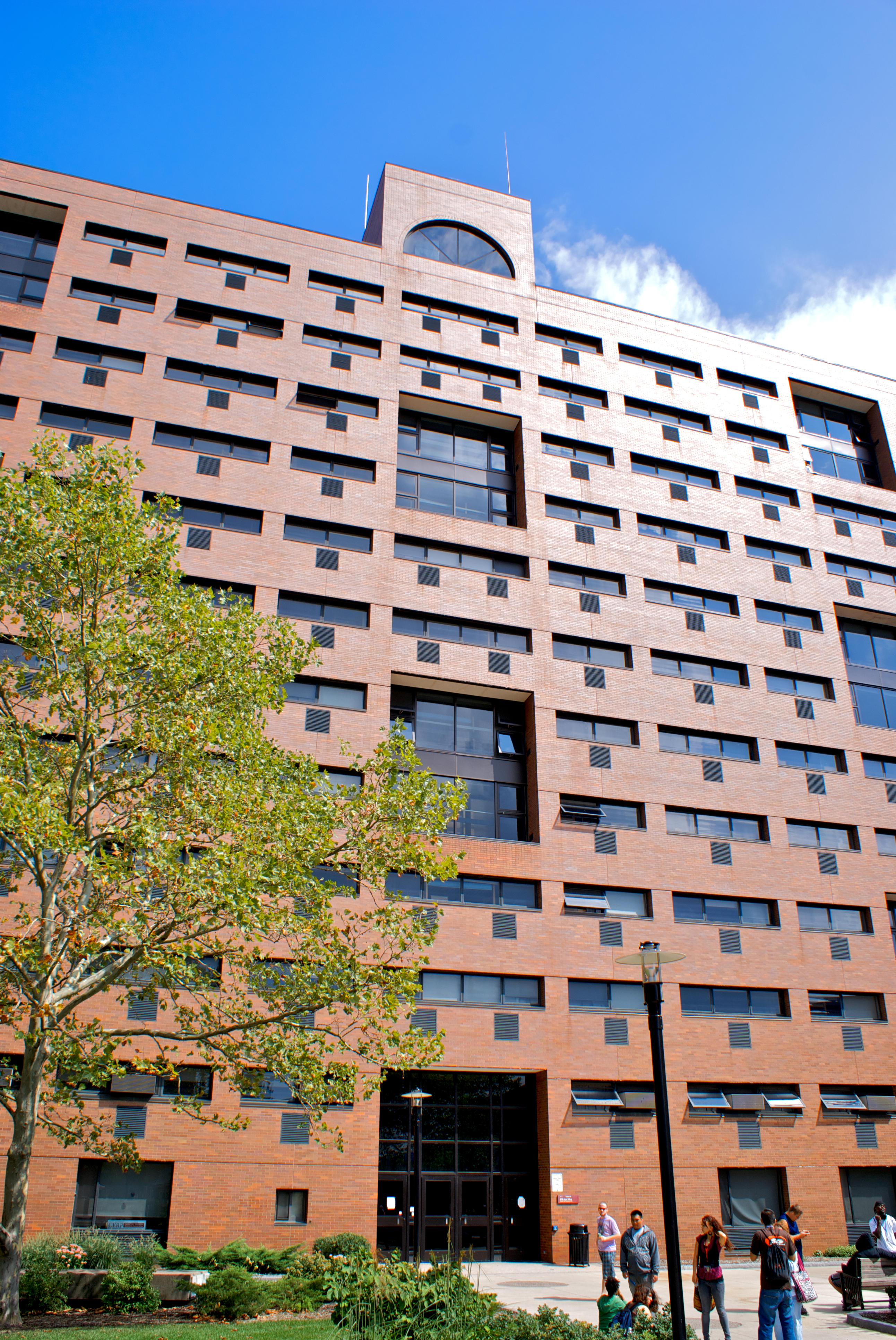 Ellingson Hall at Rochester Institute of Technology